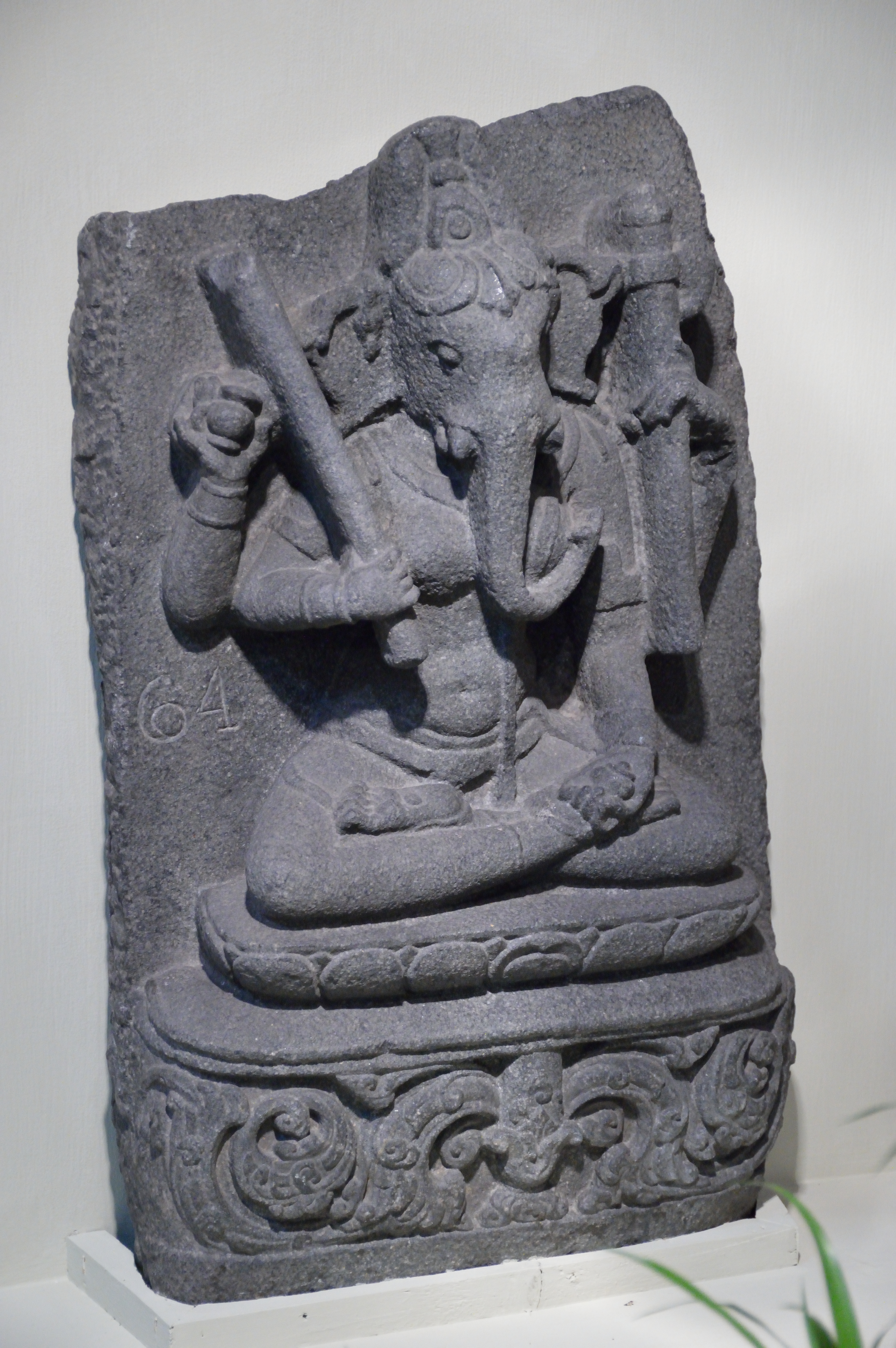 Photographed during the 'Ganapati' exhibition on Ganesha, that was held at the ABC Hall, Indian Museum, Kolkata from 17 to 27 September 2015. Total 30 artifacts were displayed out of 16 were donated by Basanta Choudhury, It was organized by the Indian Museum.